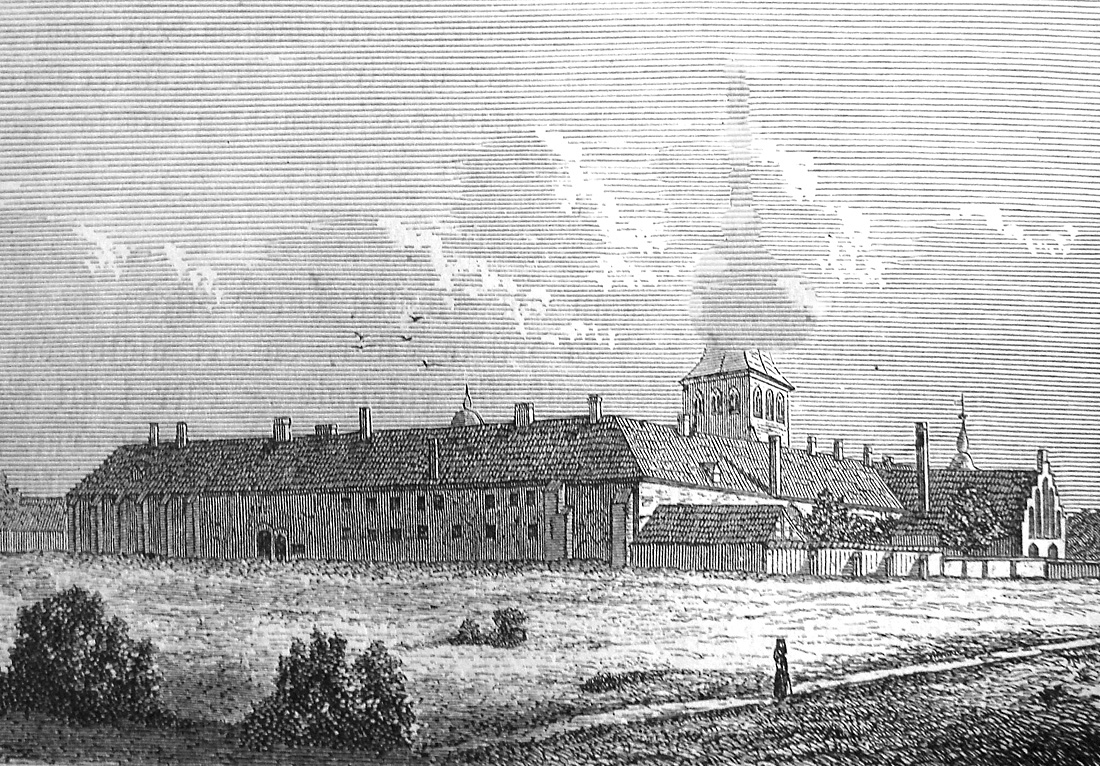 Danish photoshoped monestary